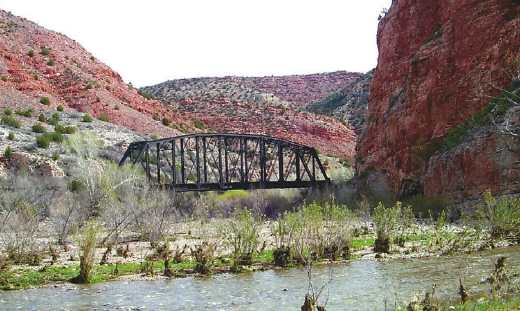 The “Black Bridge” on the Verde River Railroad downstream of Perkinsville, Arizona, USA